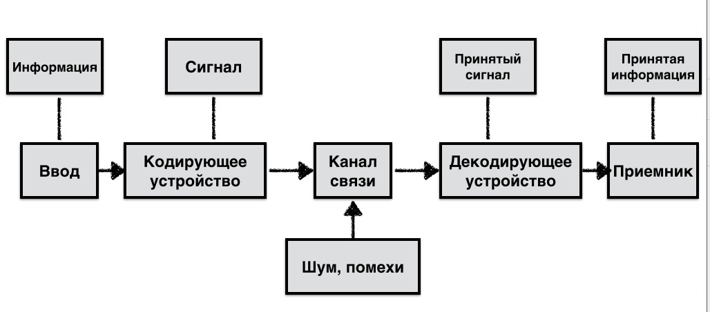 Communication model